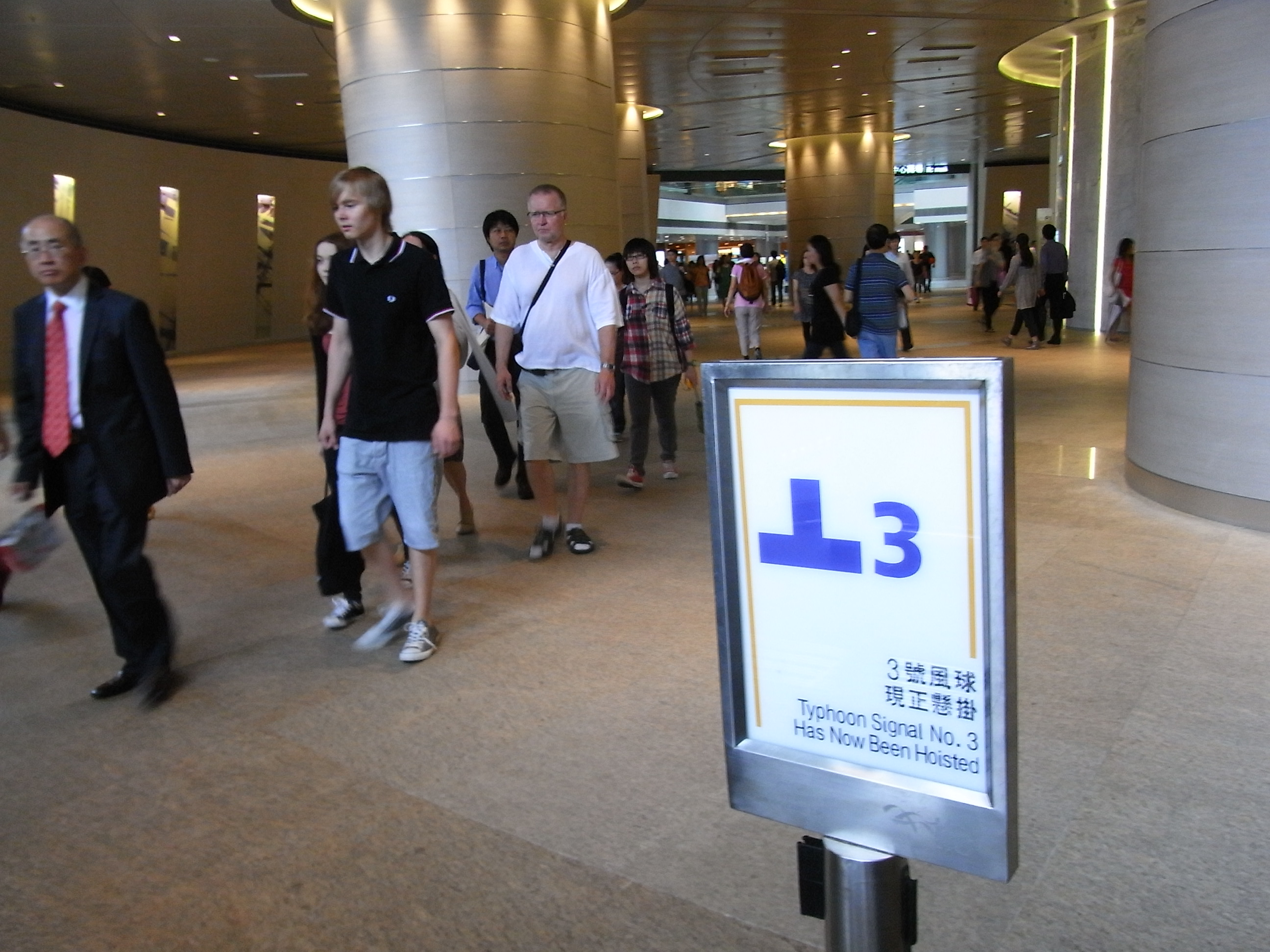 中環 香港三號風球, Typhoon Signal No.3, Central, Hong Kong